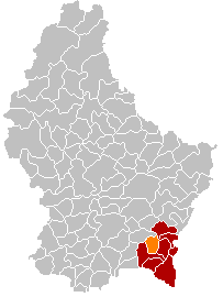 Own edit of Kanton RemichLocatie.png